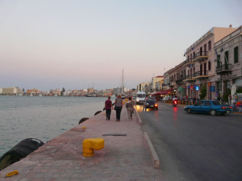 Prokimaia the Quay in Chios Town